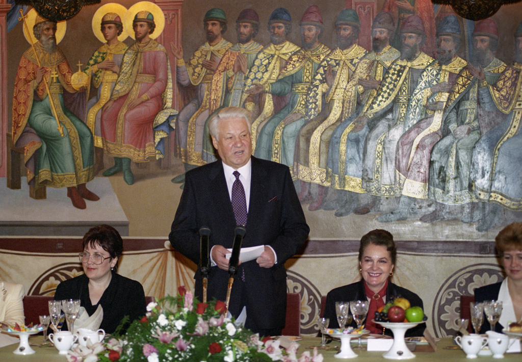 “Russian president Boris Yeltsin attends festive event on the occasion of International Women's Day, March 8”. Russian president Boris Yeltsin attending a festive event on the occasion of International Women's Day, March 8. The Kremlin.